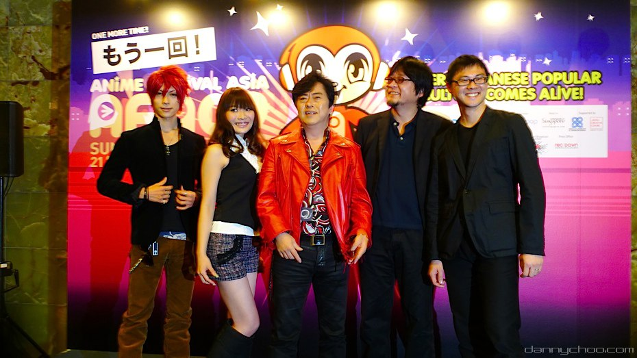 Anime personalities Kaname, May'n, Ichirou Mizuki and Mamoru Hosoda, together with Danny Choo (the photographer), at Anime Festival Asia 2009 in Singapore.